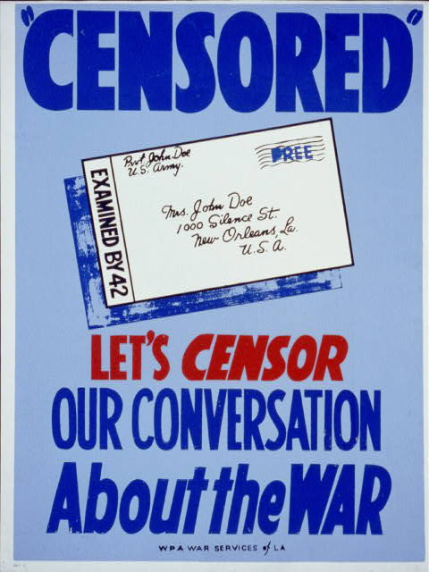 WWII Poster suggesting careless communication may be harmful to the war effort.